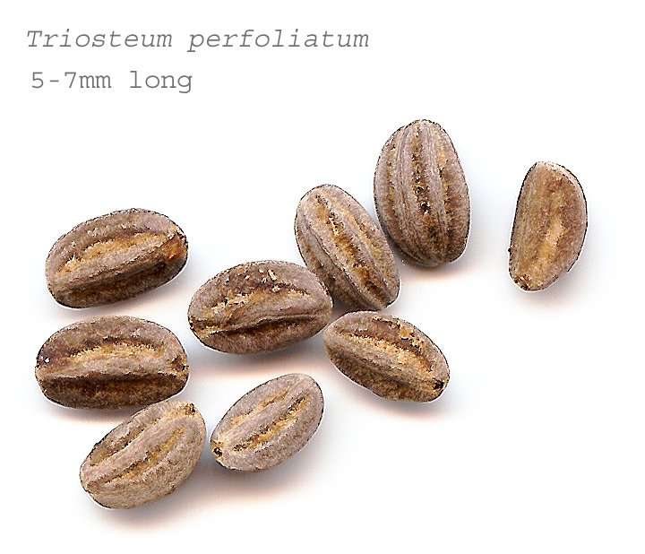 Self made Scan of seeds for Triosteum made 01/04/2008